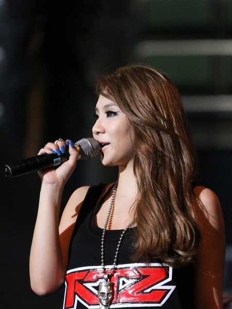 Twin Towers Alive Event Malaysia